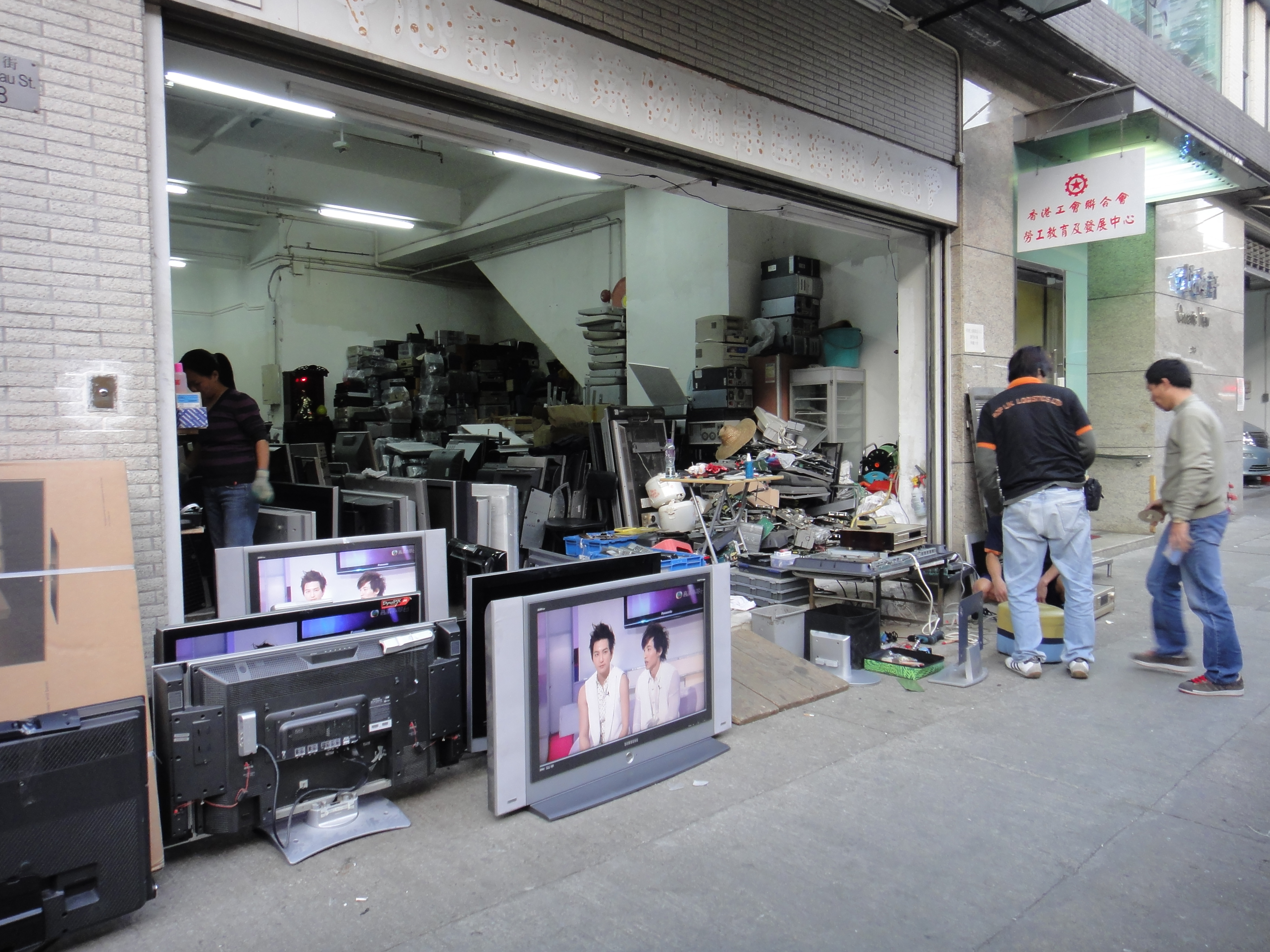 Electronic Items in Sham Shui Po